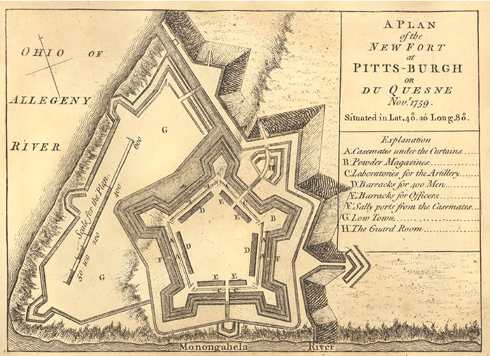 Fort Pitt (Pennsylvania), map published in 1765, drawn by John Rocque.